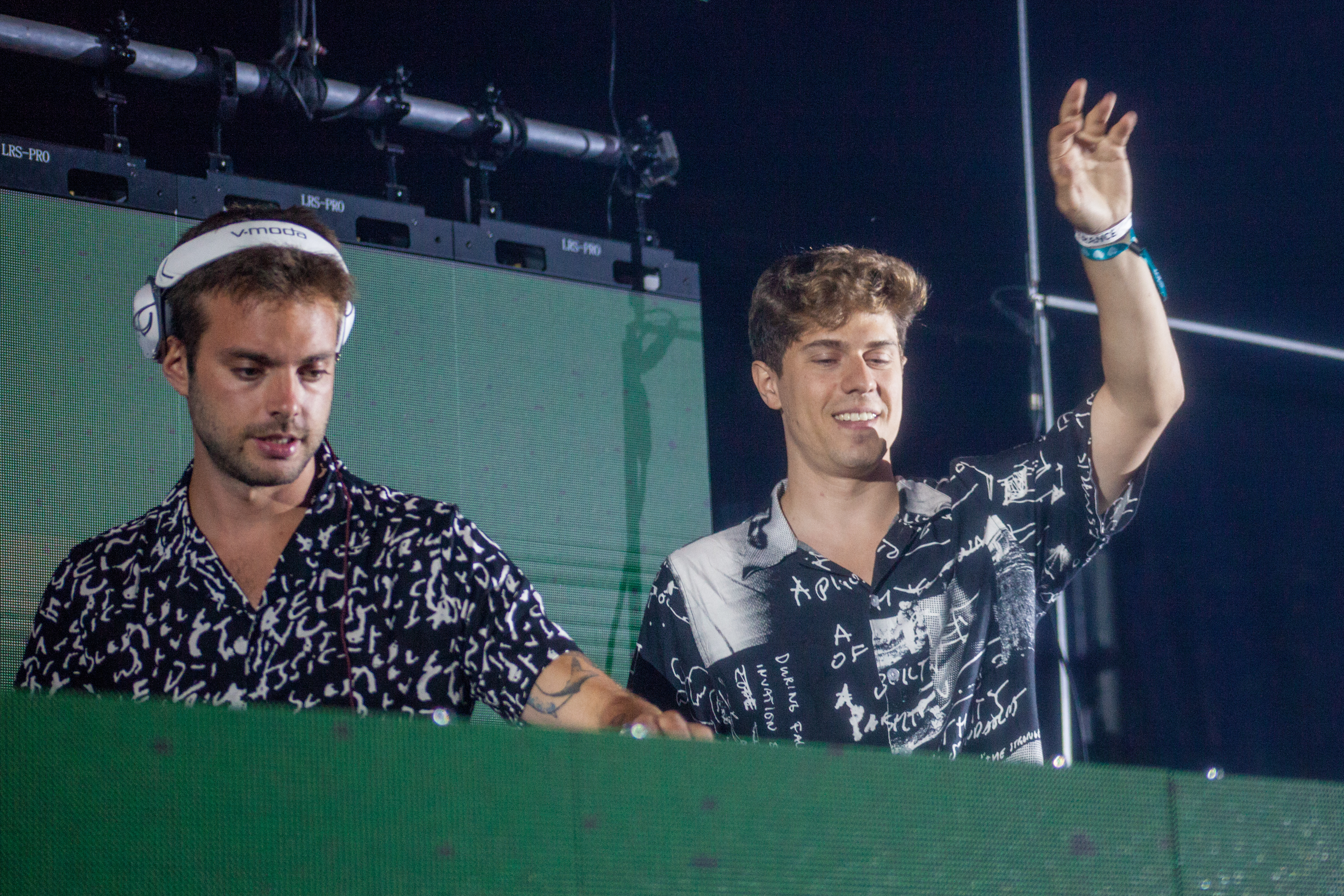 Italian musical duo Merk & Kremont performing at electronic music festival Beats for Love 2019 (Ostrava, Czechia) on 6 July 2019